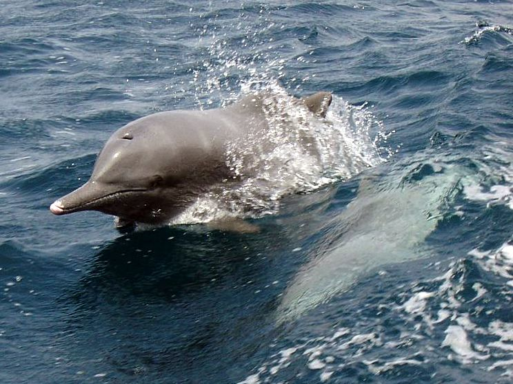 Dolphins following alongside the Dhow Musandam, Oman)